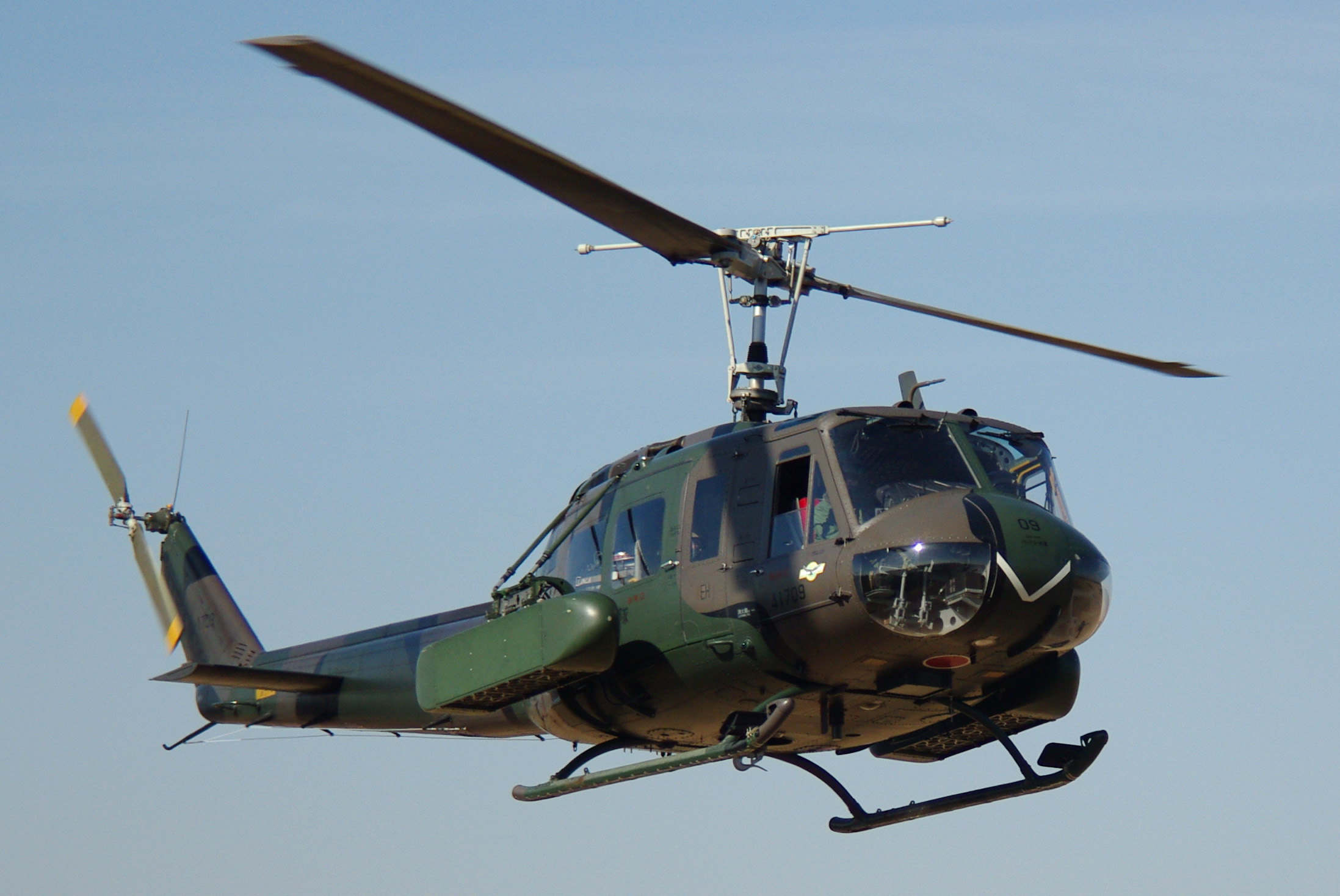 JGSDF UH-1H & Type87 mine dispenser.Taken by Los688,in Narashino,Japan,at 09-Jan-2011,JGSDF 1st Airborne Brigade 2011 first drop manuver.PD-self 陸上自衛隊 東部方面ヘリコプター隊UH-1Hヘリとヘリ側面に87式地雷散布装置 2011年01月09日、習志野演習場でLos688が撮影。